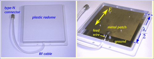 Antena Microstrip rectangular (antena de parche).